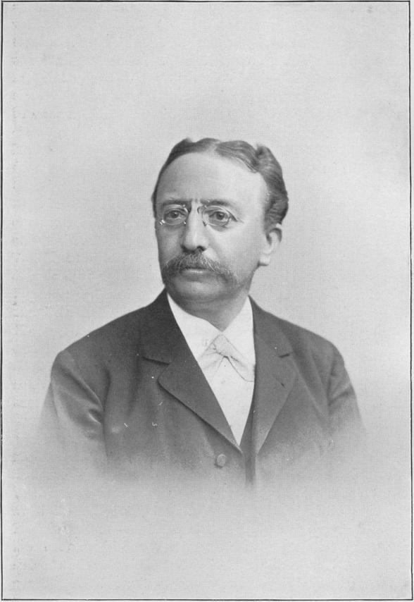 Max Schede